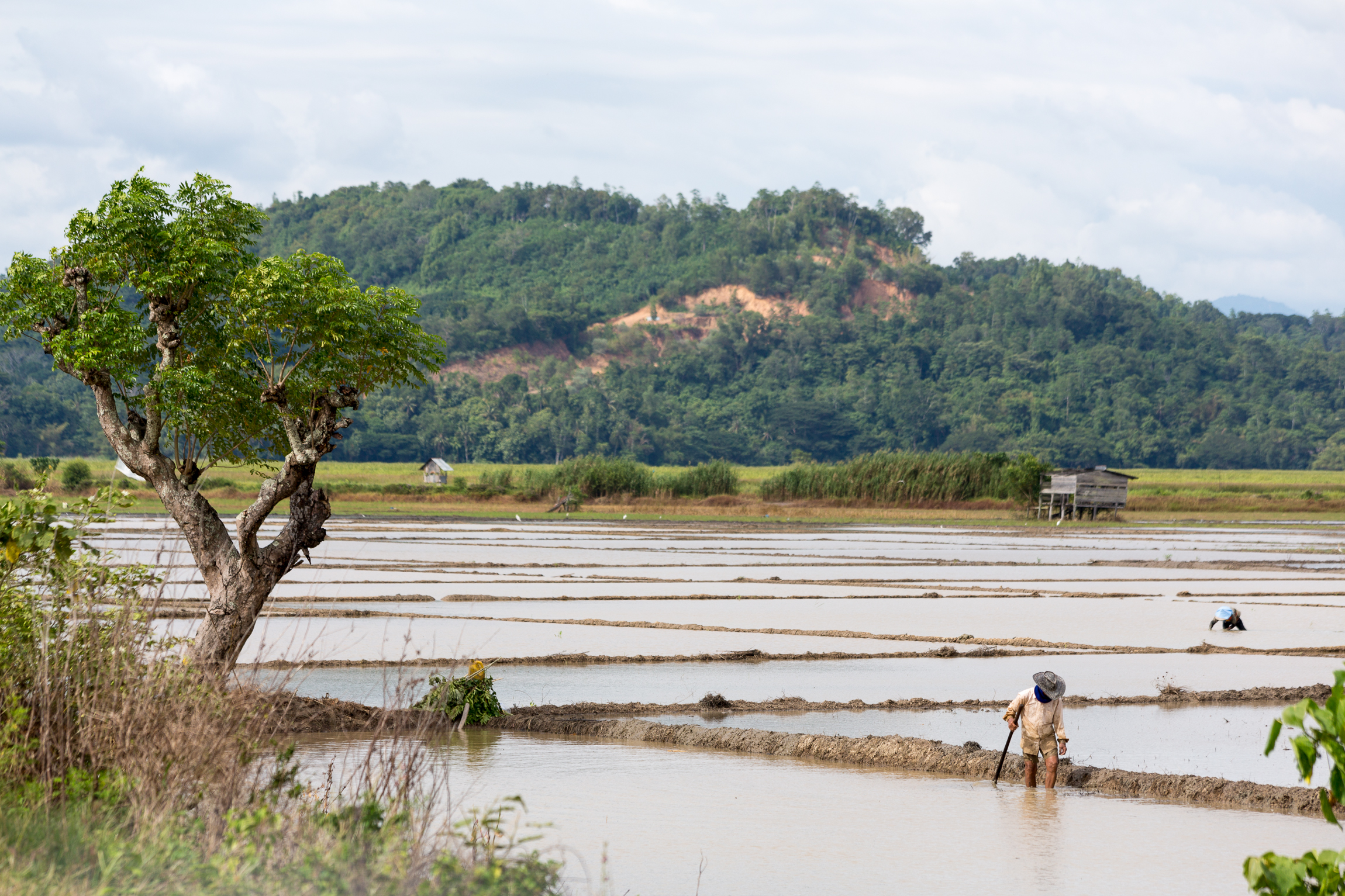 Kota Belud, Sabah: A rice padi of the Tempassuk II rice padi sector